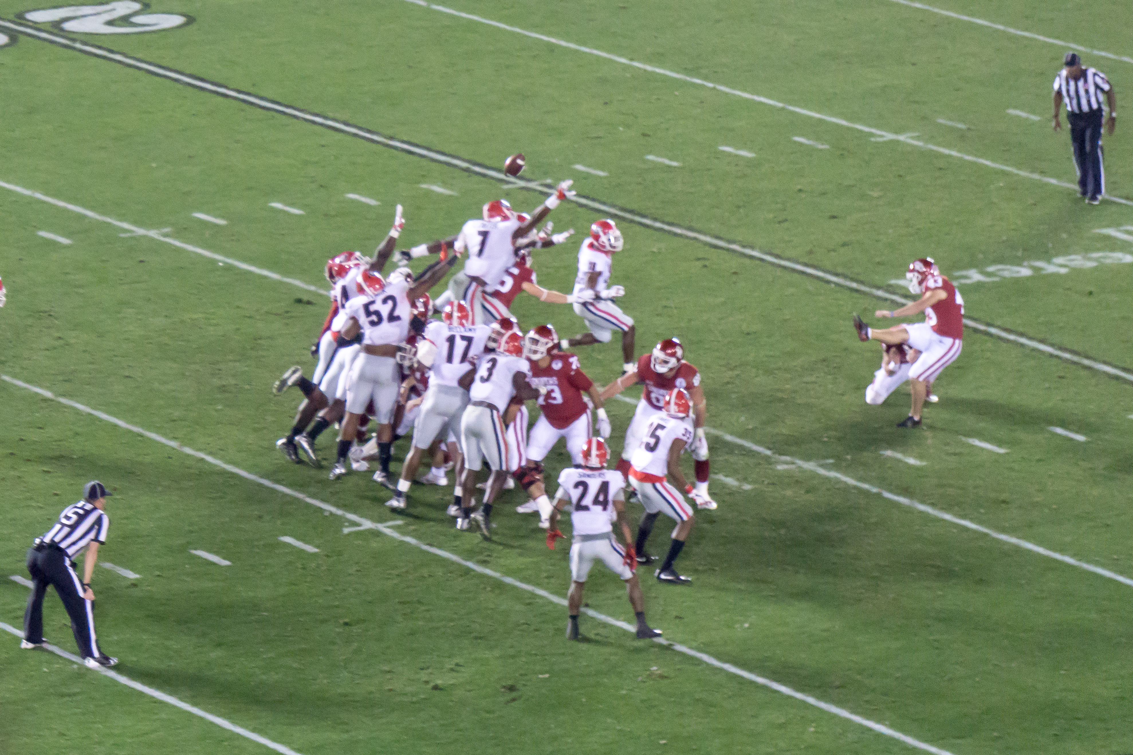 Georgia's Lorenzo Carter blocks an Oklahoma field goal in 2nd overtime, leading to Georgia's win when Sony Michel scores the final touchdown.